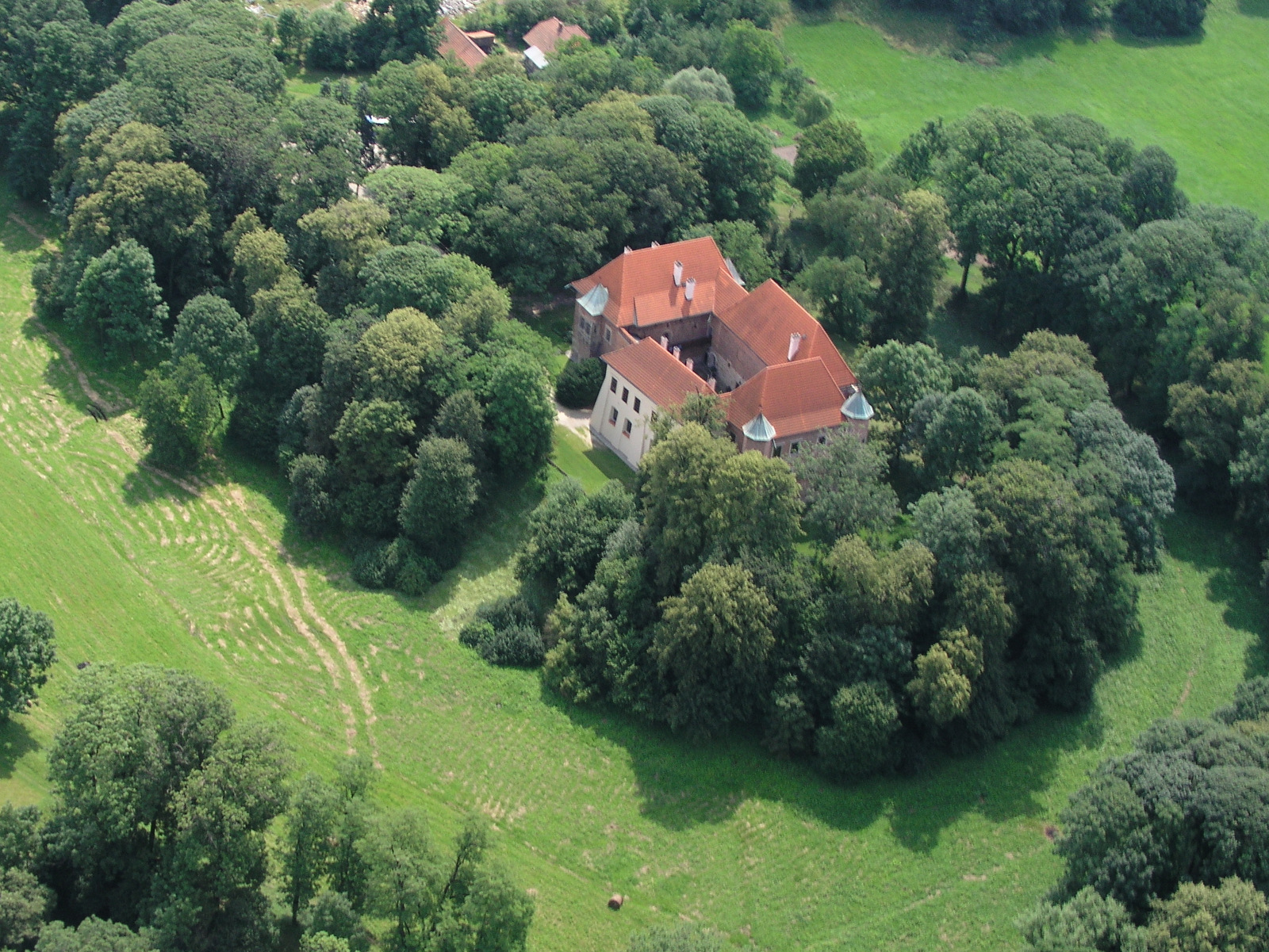 Dębno castle